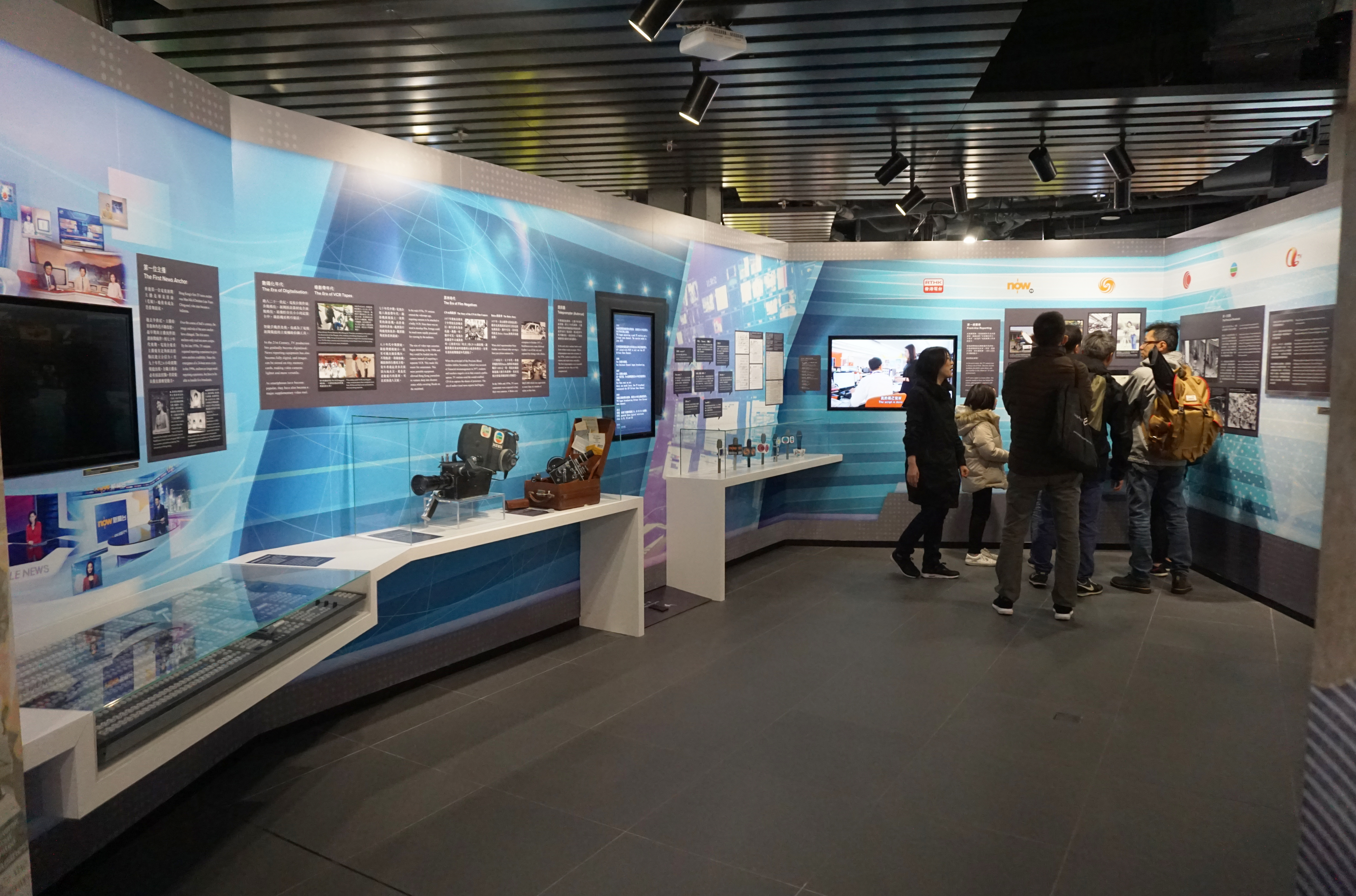 Hong Kong News-Expo in Central, Hong Kong.